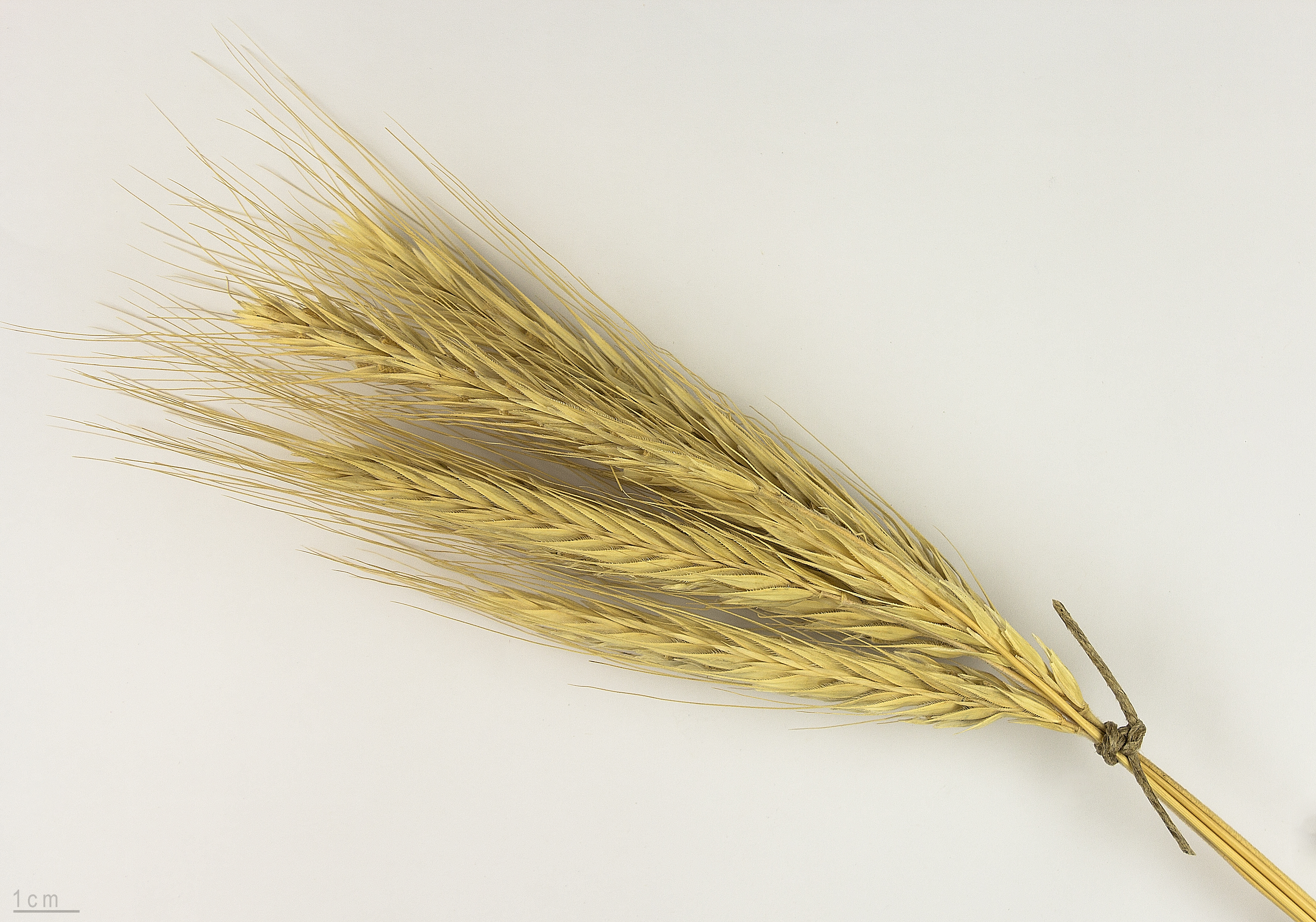 Secale cereale, seeds